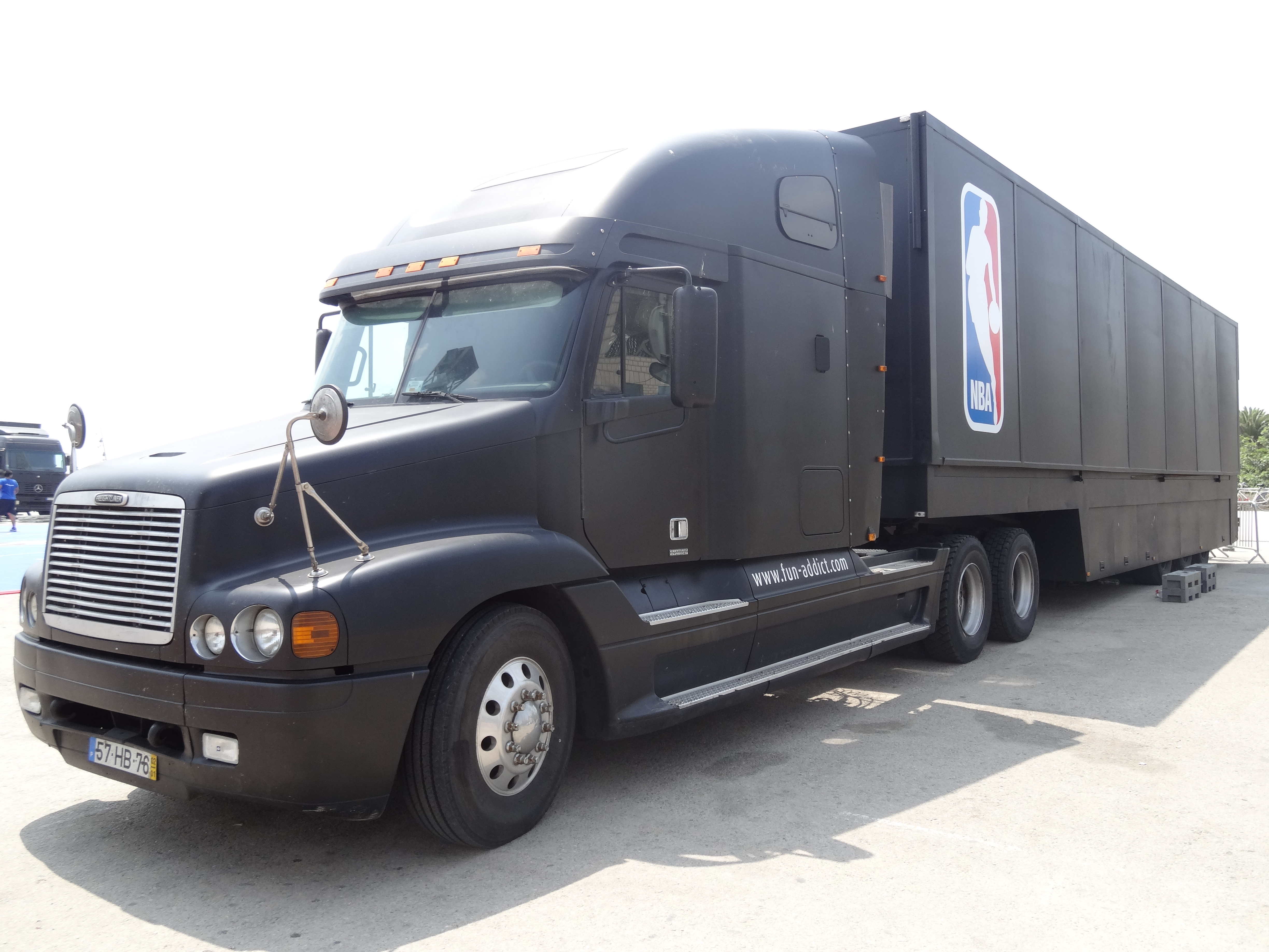 NBA truck at Port Olimpic, Barcelona